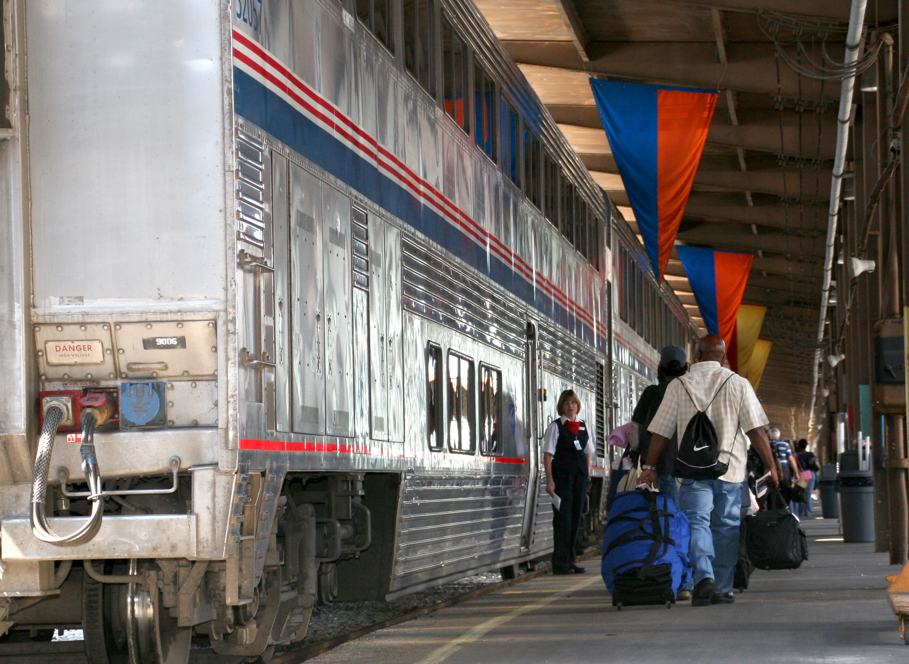 New Orleans, LA, October 9, 2005 - Amtrak riders begin to board the City of New Orleans for its first departure from Union Passenger Terminal since Hurricane Katrina substantially damaged the rail lines. Passenger rail service began today, Sunday, October 9, with the hopes of steady growth during the rebuilding process of New Orleans and the surrounding parishes. Robert Kaufmann/FEMA